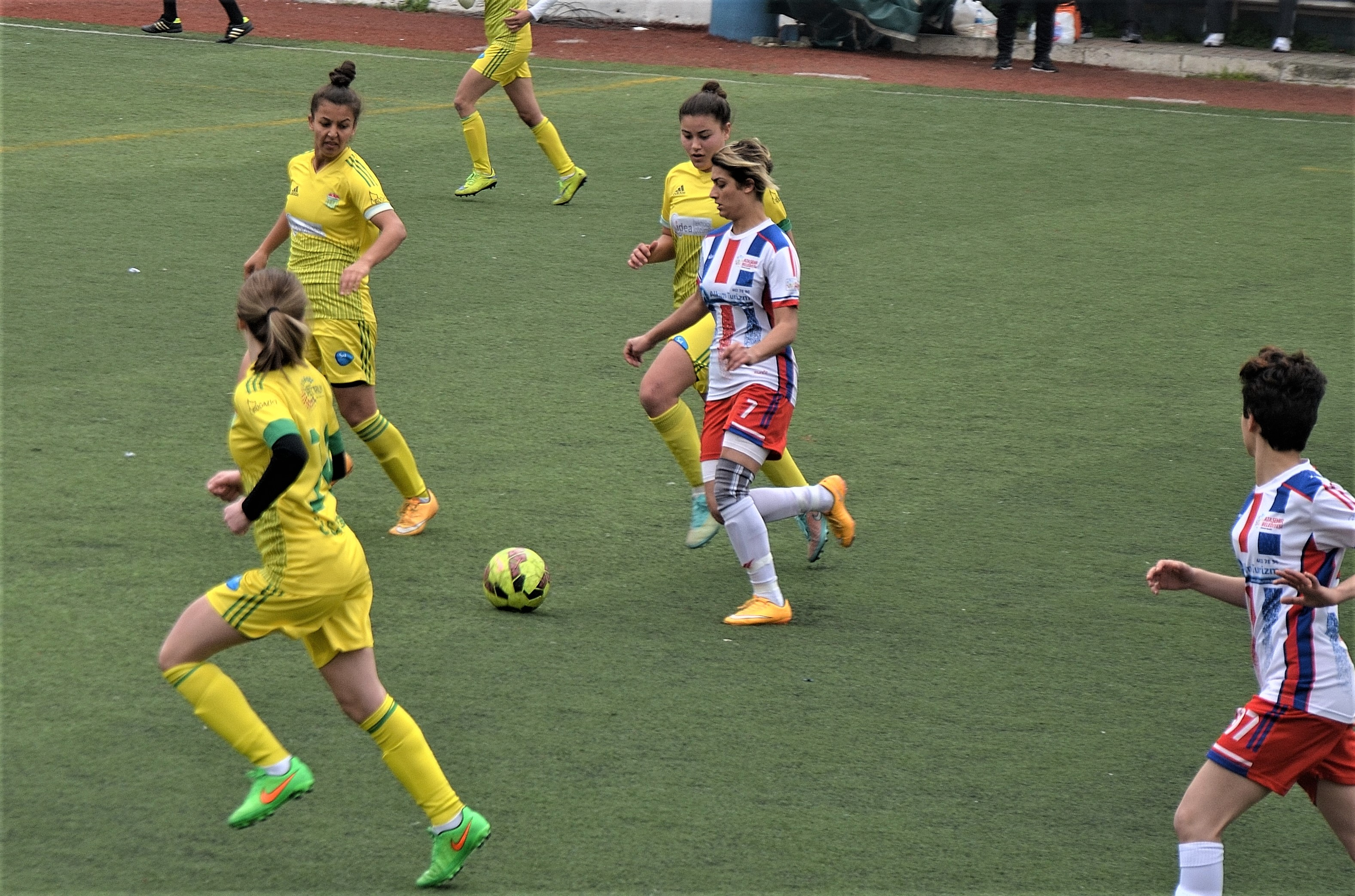 Seval Kıraç (white/red mid) playing for Ataşehir Belediyespor in the 2015-16 Turkish Women'd First Footall League.